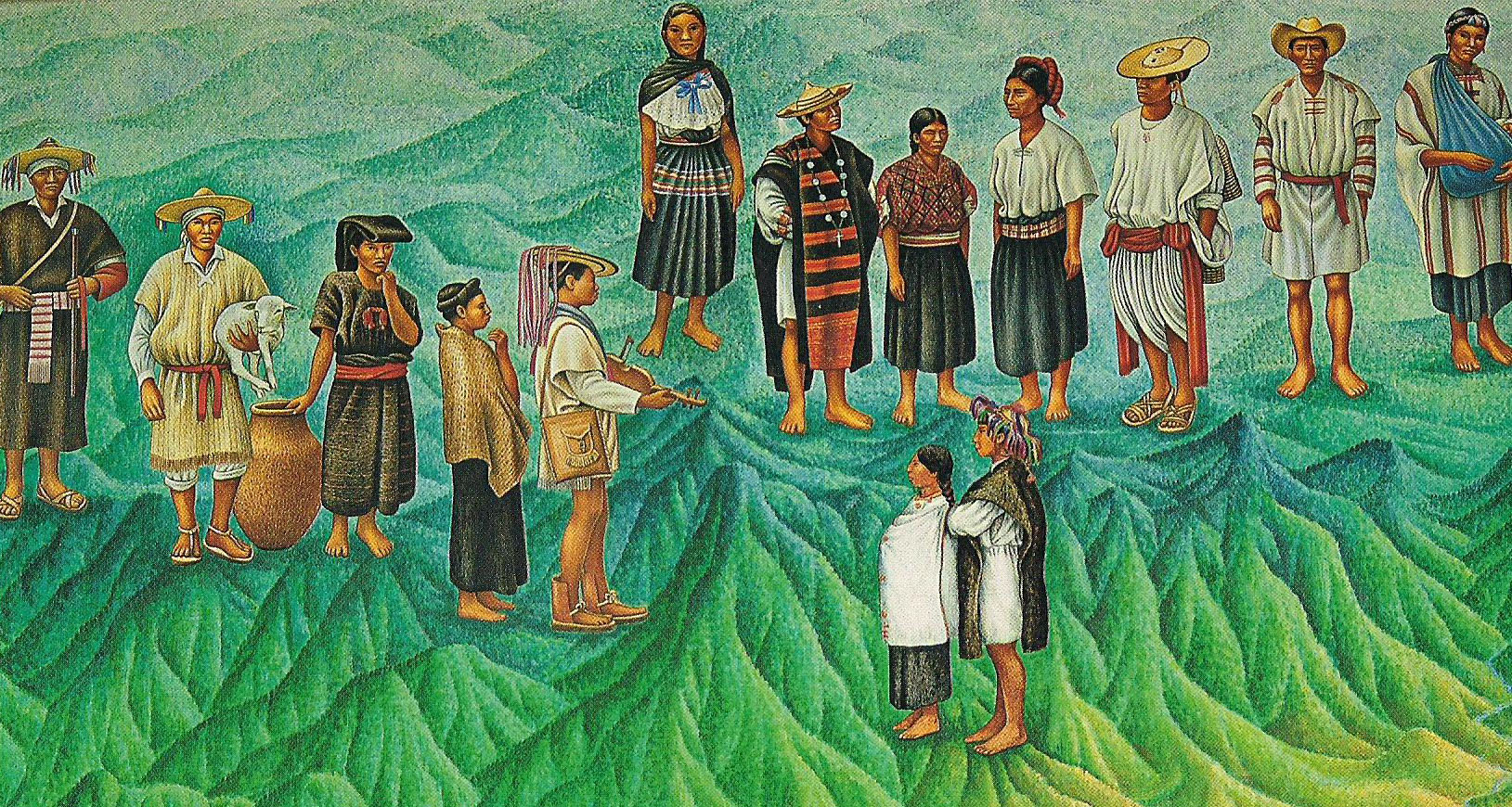 Boards of Ethnography. National Museum of Anthropology (Mexico)